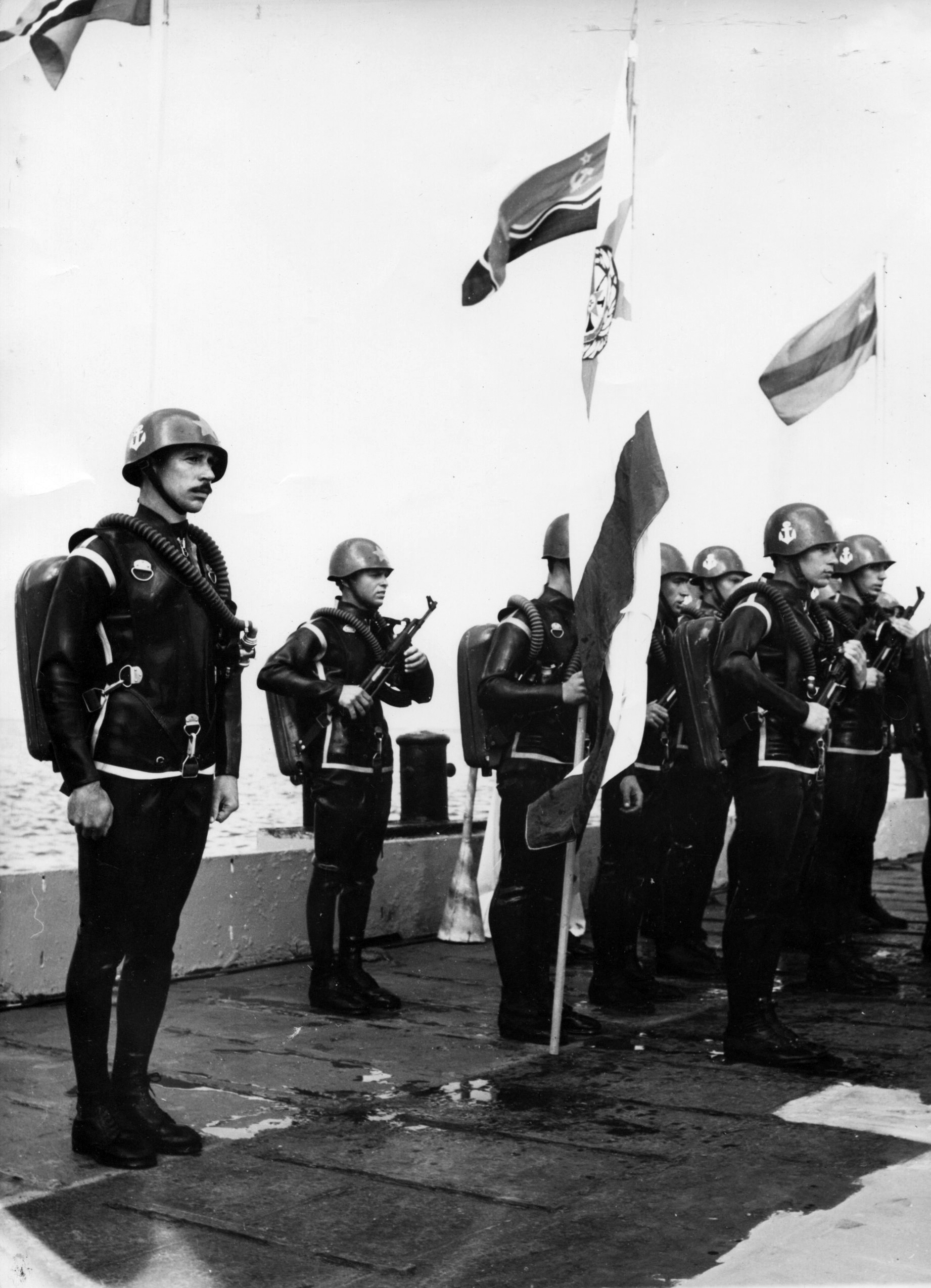 frogman 17th Brigade special operations forces of USSR Navy, lieutenant commander Anatoliy Karpenko